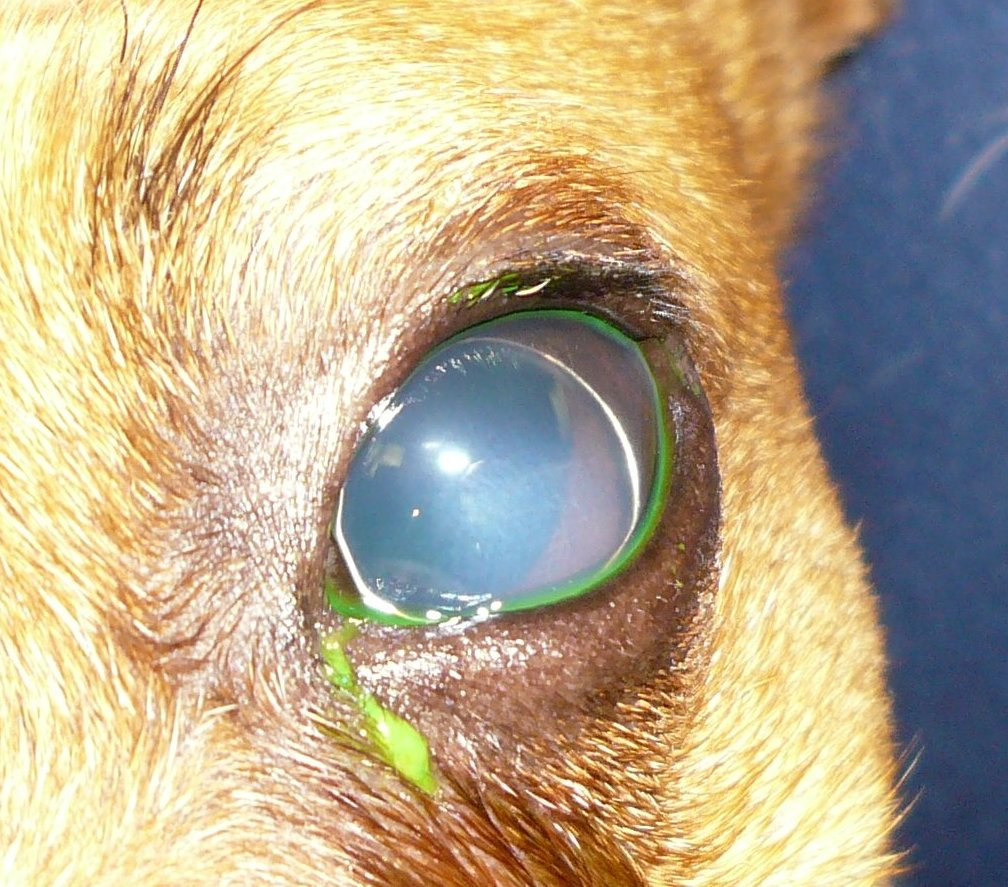 Anterior ectopia lentis, or luxated lens, in a dog. The small amount of greenish liquid is remnants of fluorescein stain.